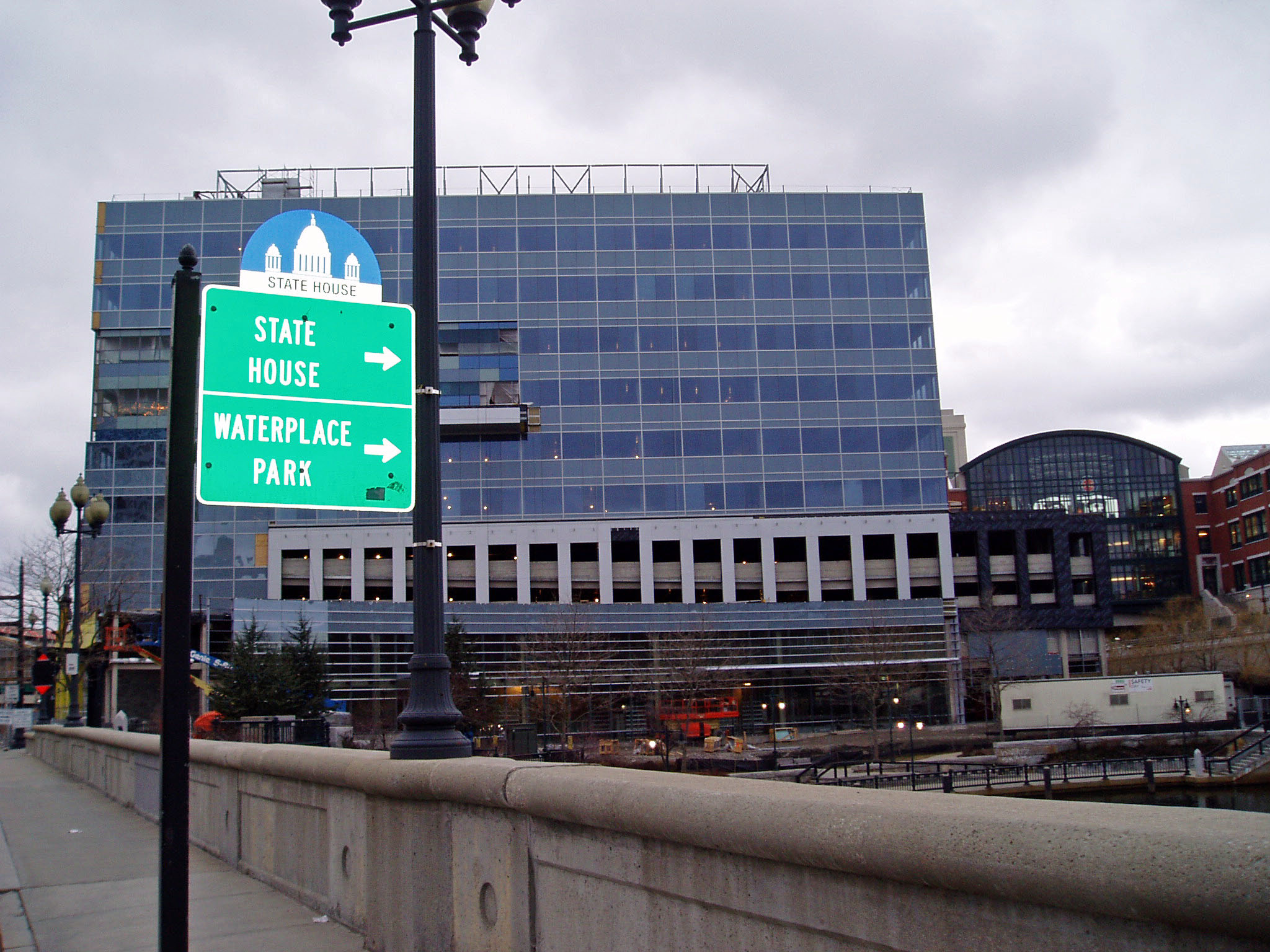 The new GTECH Corporation world headquarters, shown while still under construction, in Providence.